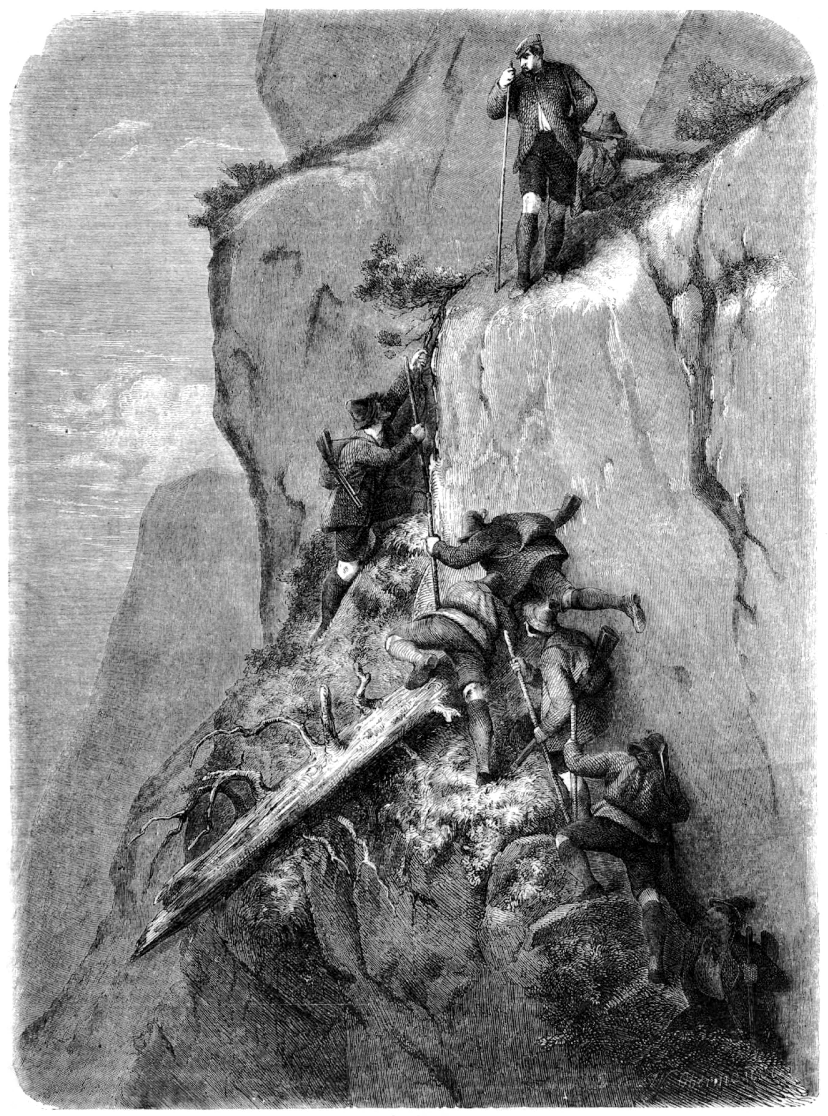 caption: "Das Aufsteigen."